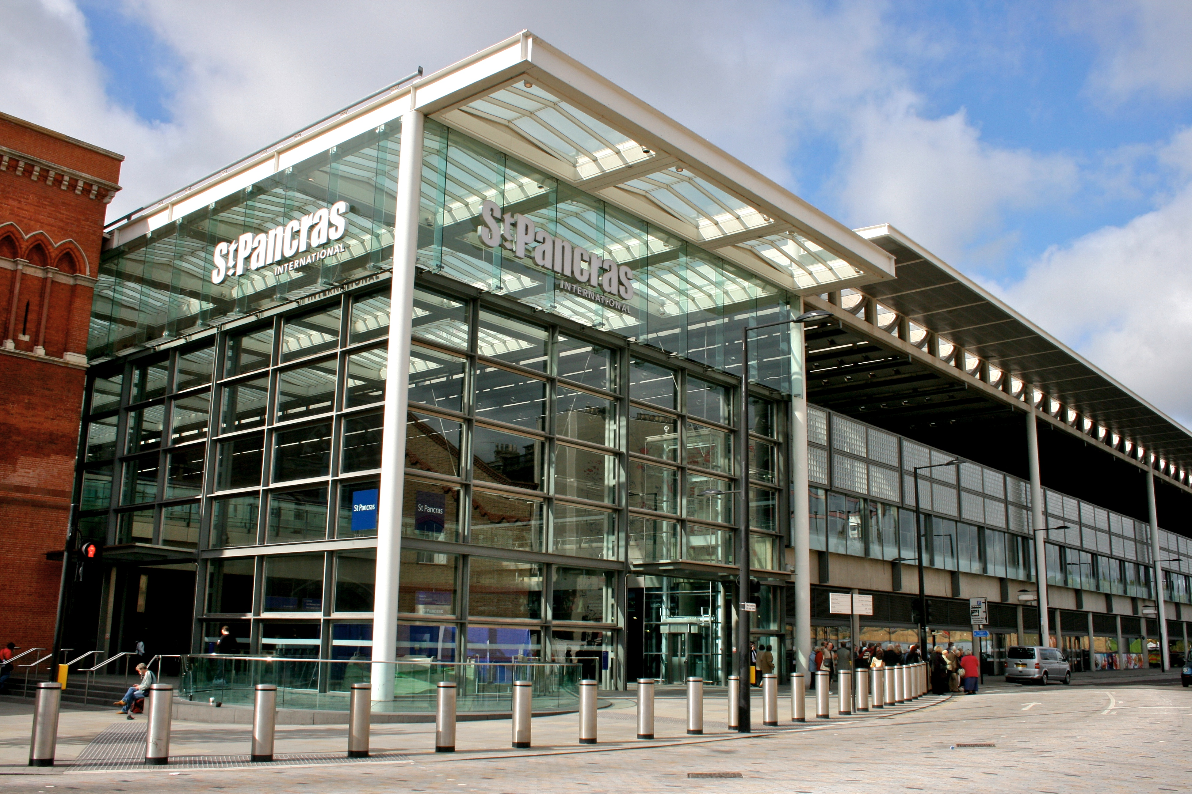 St Pancras International railway station entrance.